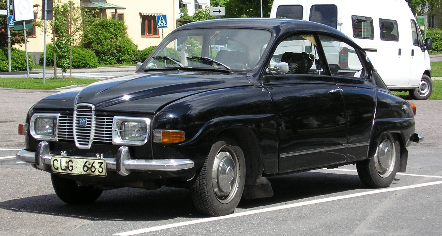 A 1971 SAAB 96 V4. Photographed by myself in Uppsala, Sweden 2005.